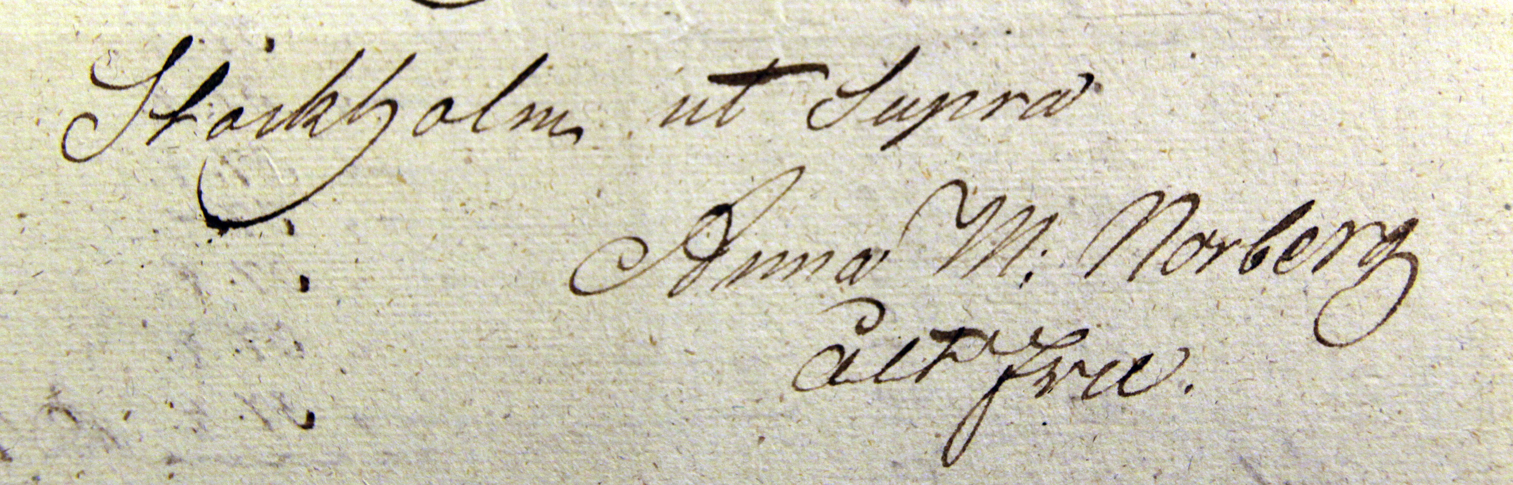 Åldrfru at the Swedish court, signature from 1813.